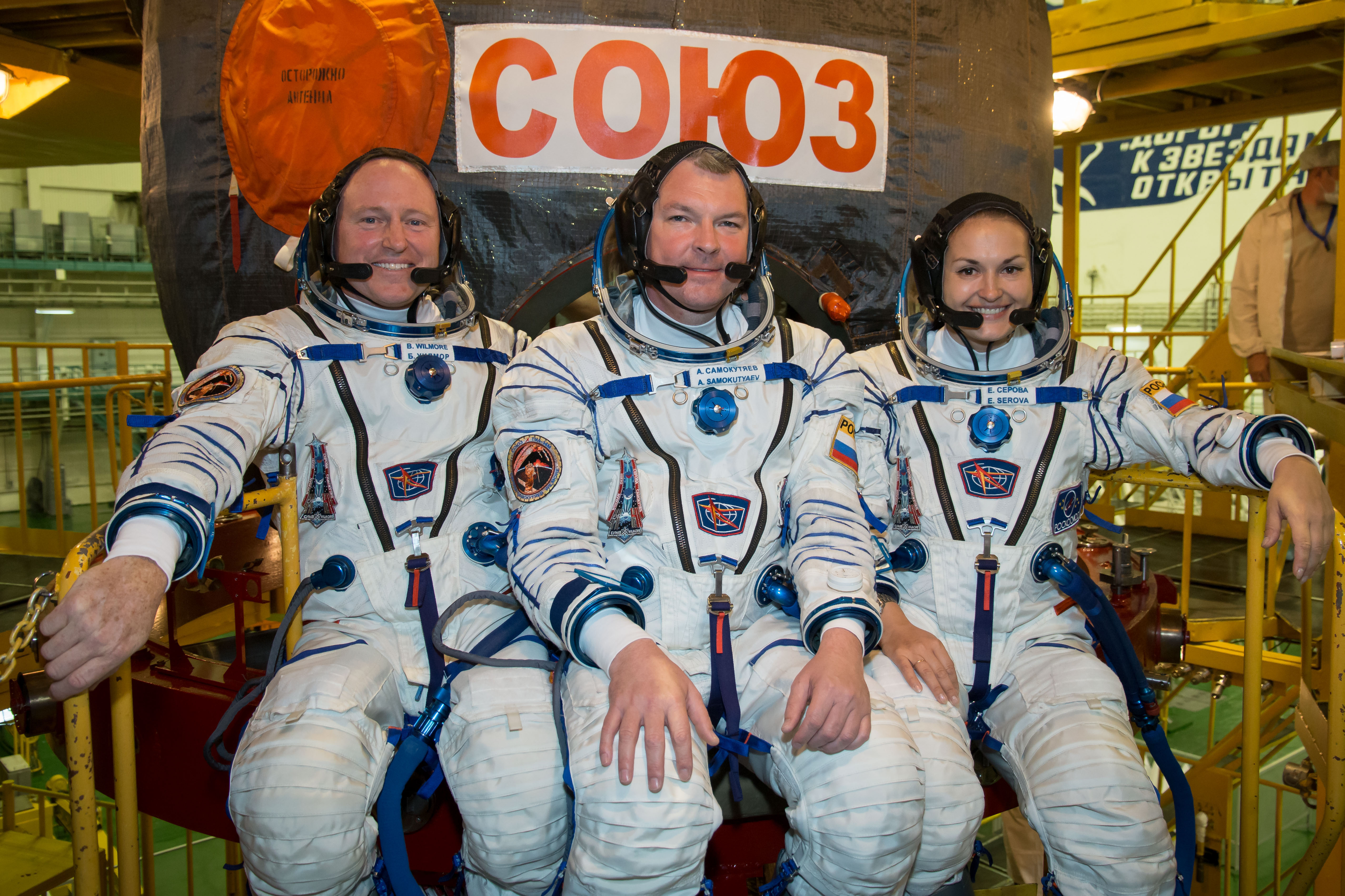 At the Baikonur Cosmodrome in Kazakhstan and clad in their Russian Sokol launch and entry suits, Expedition 41/42 Flight Engineer Barry Wilmore of NASA (left), Soyuz Commander Alexander Samokutyaev of the Russian Federal Space Agency (Roscosmos), center; and Flight Engineer Elena Serova of Roscosmos pose for pictures Sept. 13 in front of their Soyuz TMA-14M spacecraft during the first of two "fit check" dress rehearsal activities. The trio will launch on Sept. 26, Kazakh time, in the Soyuz to begin a 5 ½ month mission on the International Space Station. Serova will become the fourth Russian woman to fly in space.